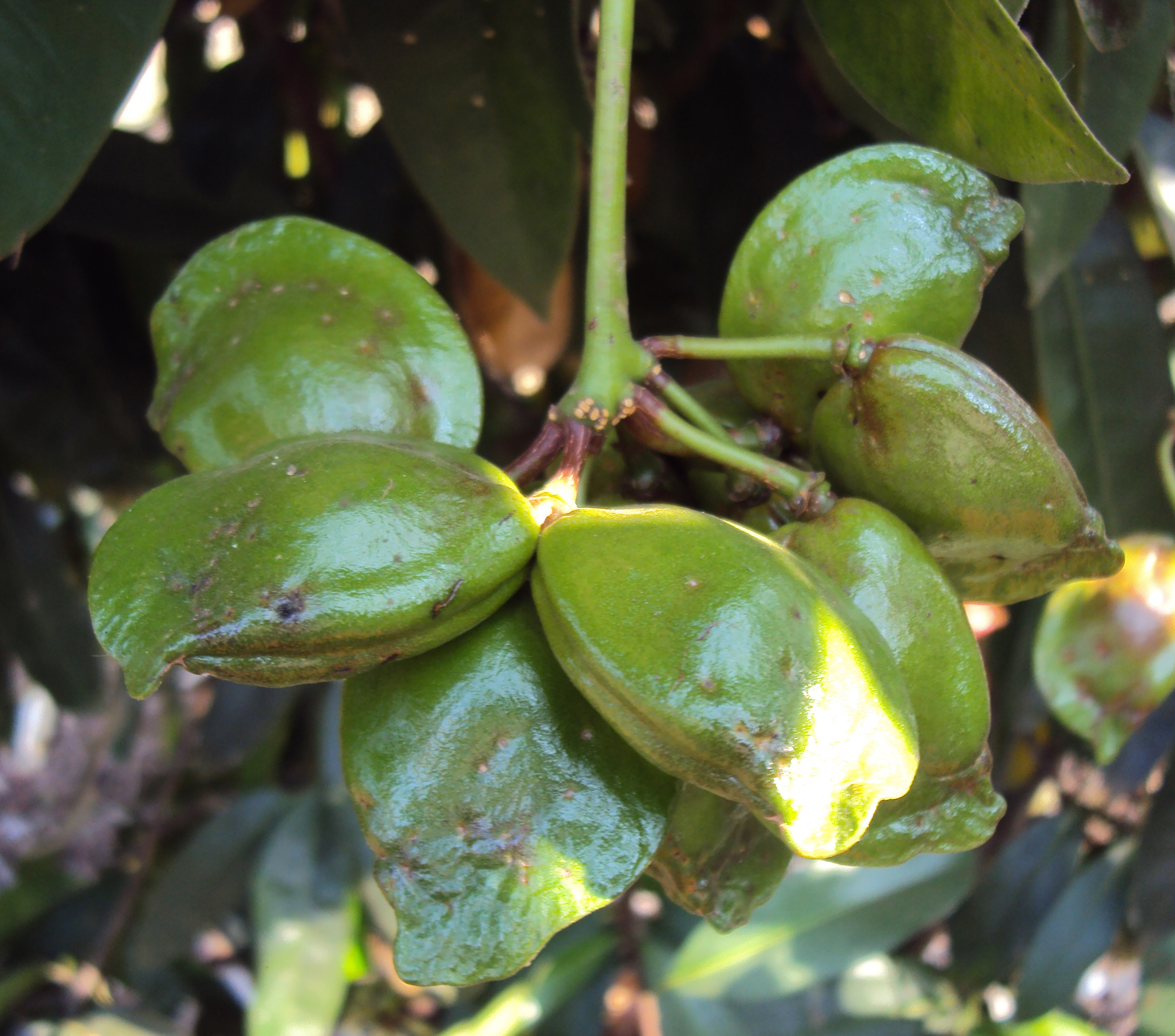 Quassia indica